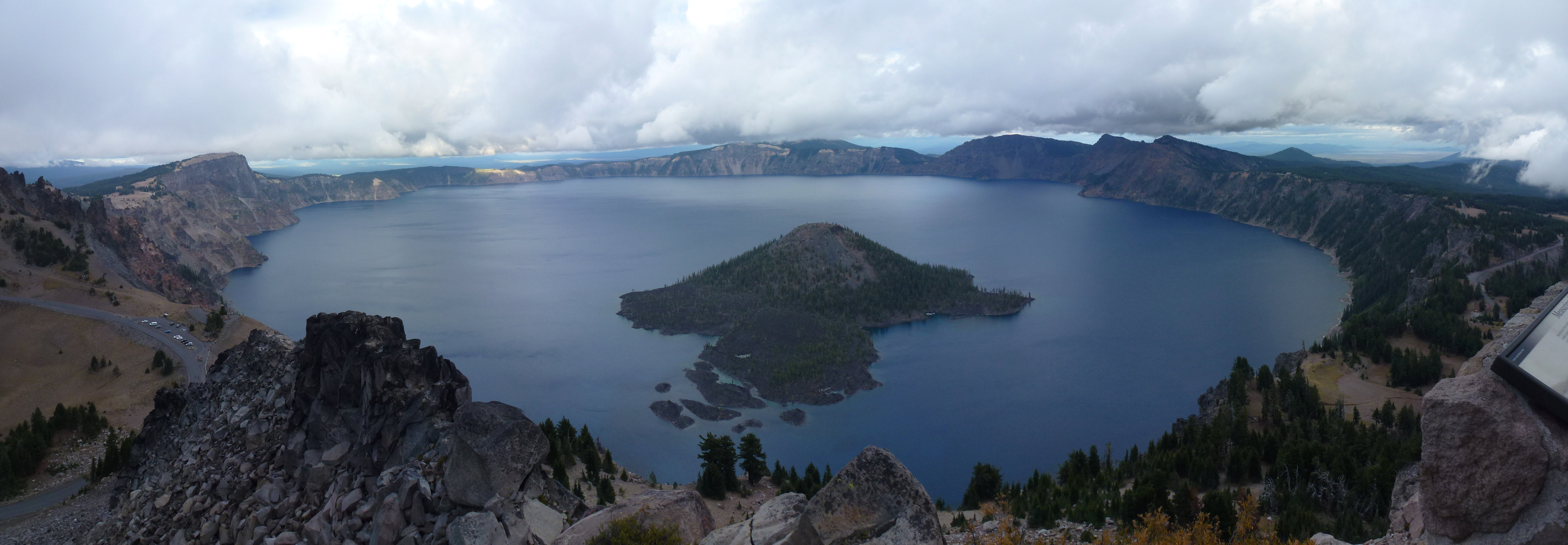 Crater Lake from the summit of The Watchman.